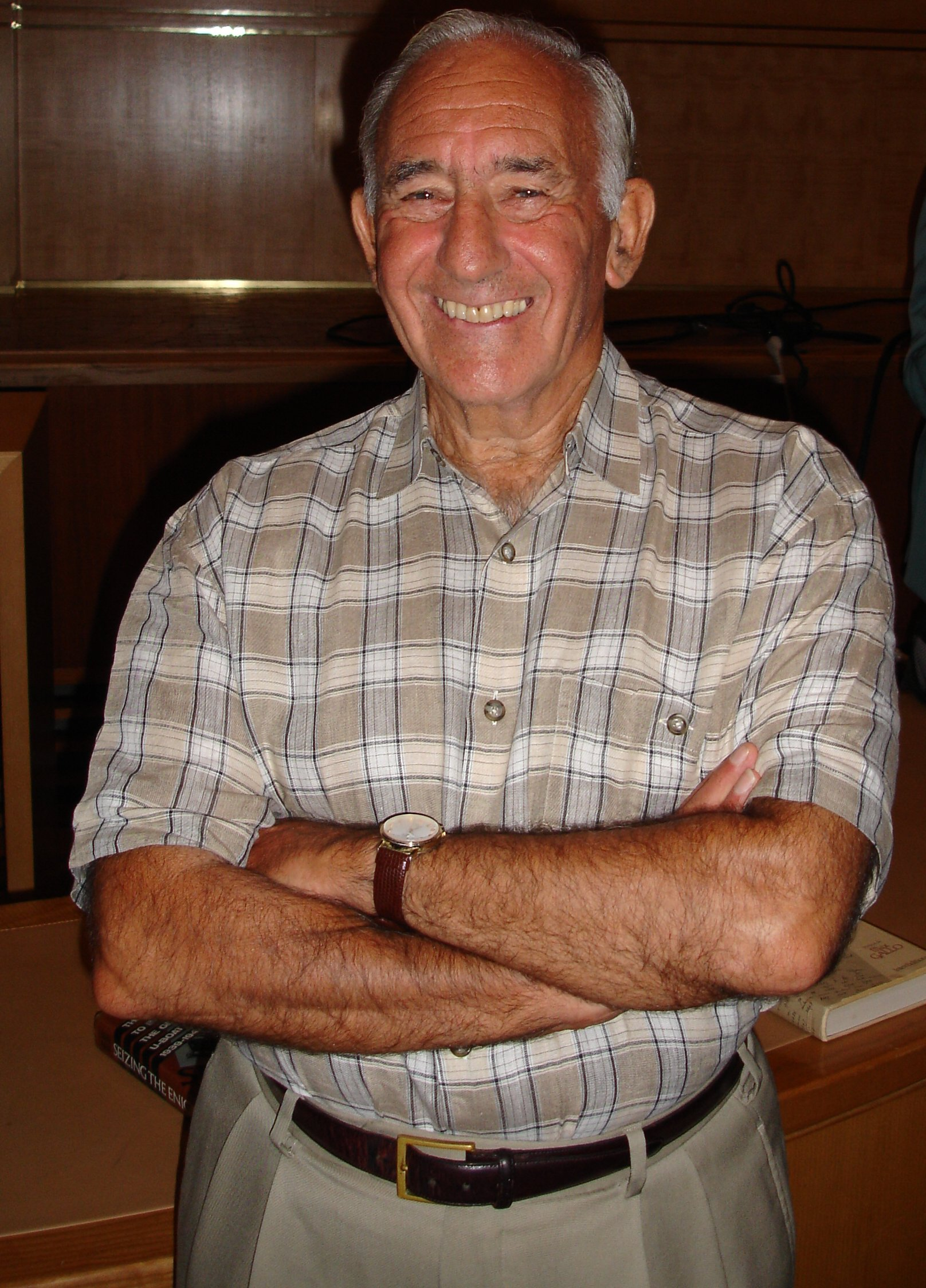 David Kahn at a cryptography talk in Toulouse, "Hôtel de Région"